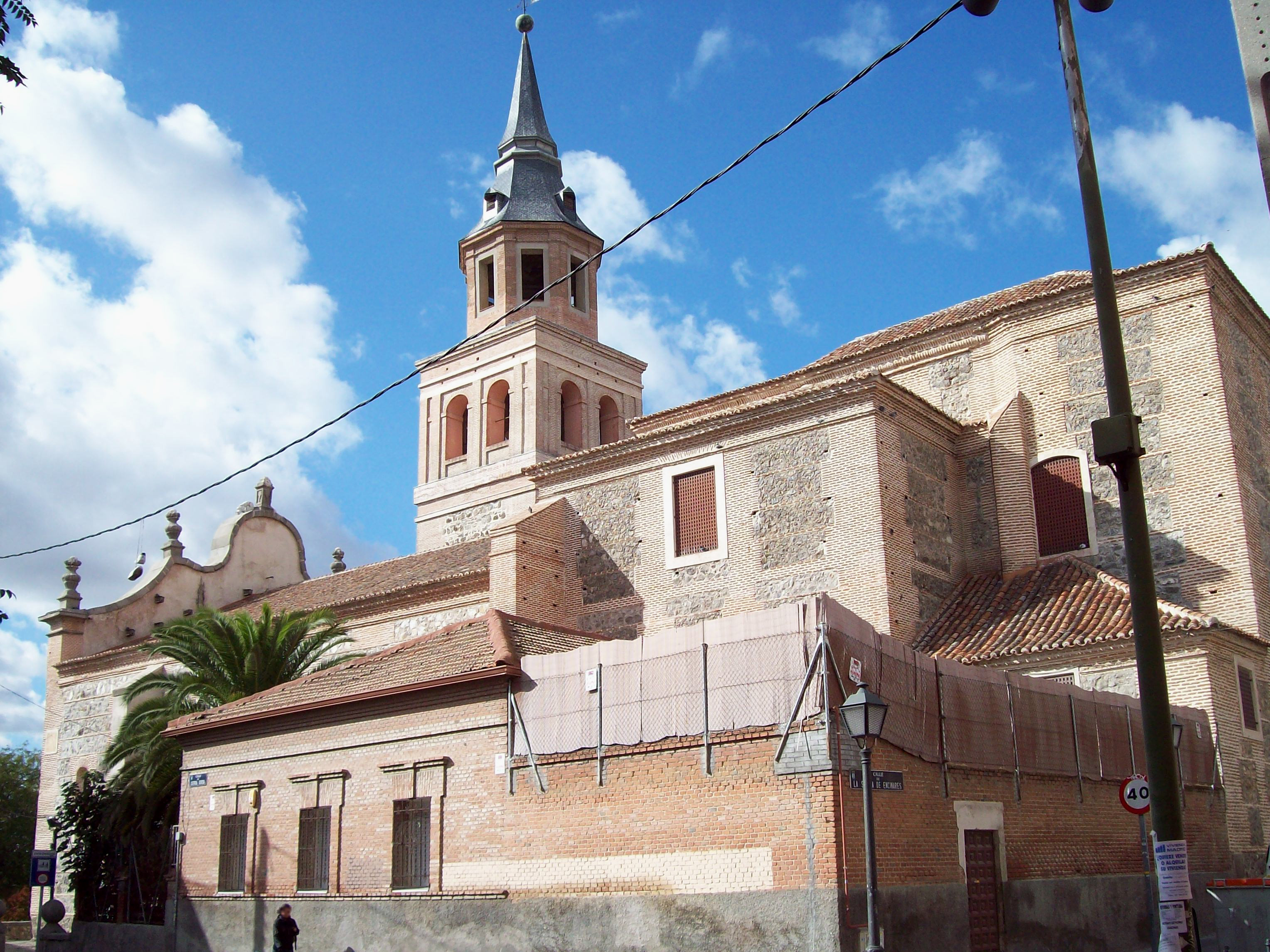 View of Church of St Peter ad Vincula in Madrid (Spain) from the east angle.